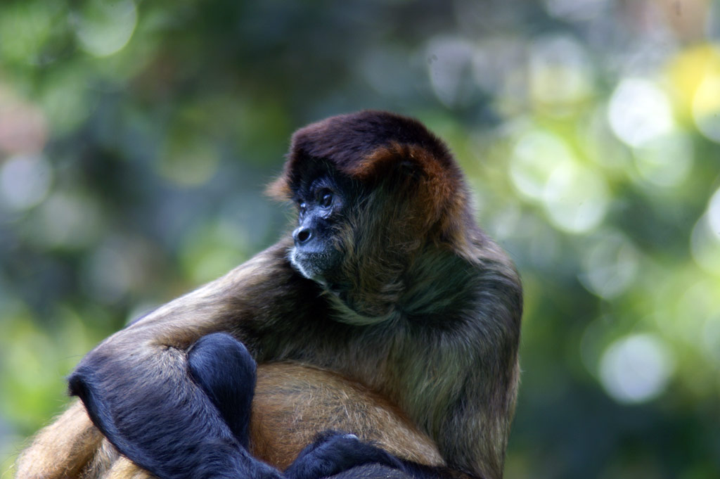 geoffroy's spider monkey